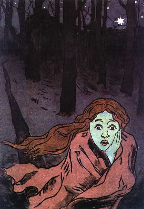 Maria Yakunchikova "Fear" 1893-95